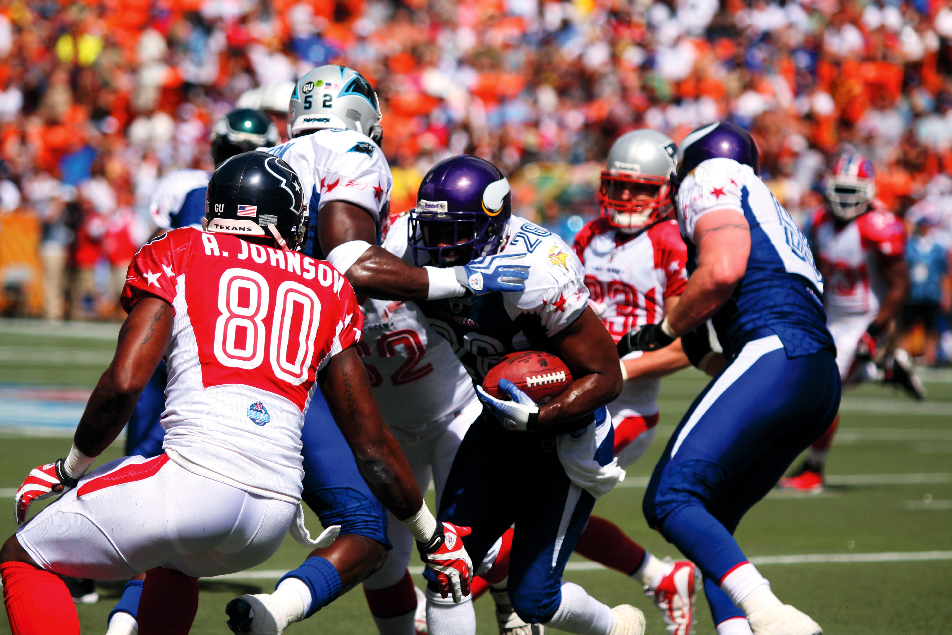 Minnesota Vikings' running back Adrian Peterson fights his way through the American Football Conference's defense to gain yards for a first down during the 2009 Pro Bowl at the Aloha Stadium Feb. 8. The National Football Conference left the game with a 30-21 win over the AFC.